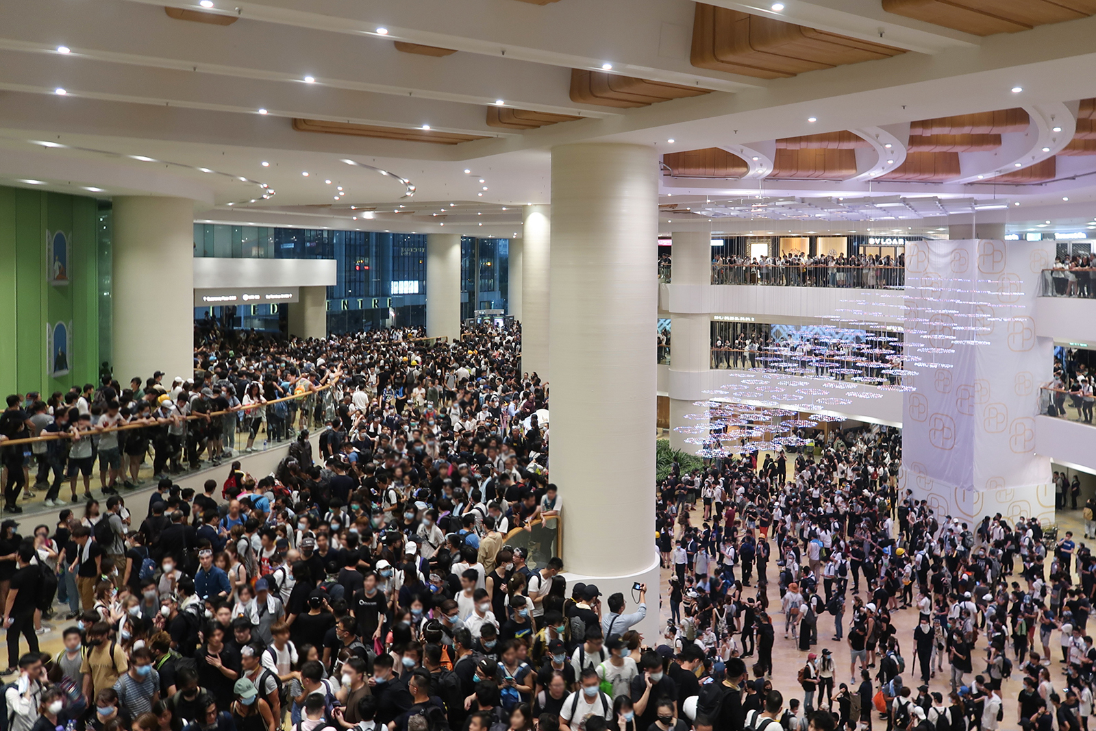 Protester occupy Harcourt Road